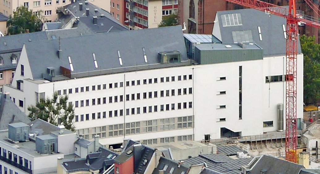 Haus am Dom, 2012 in Frankfurt am Main. View from MainTower.